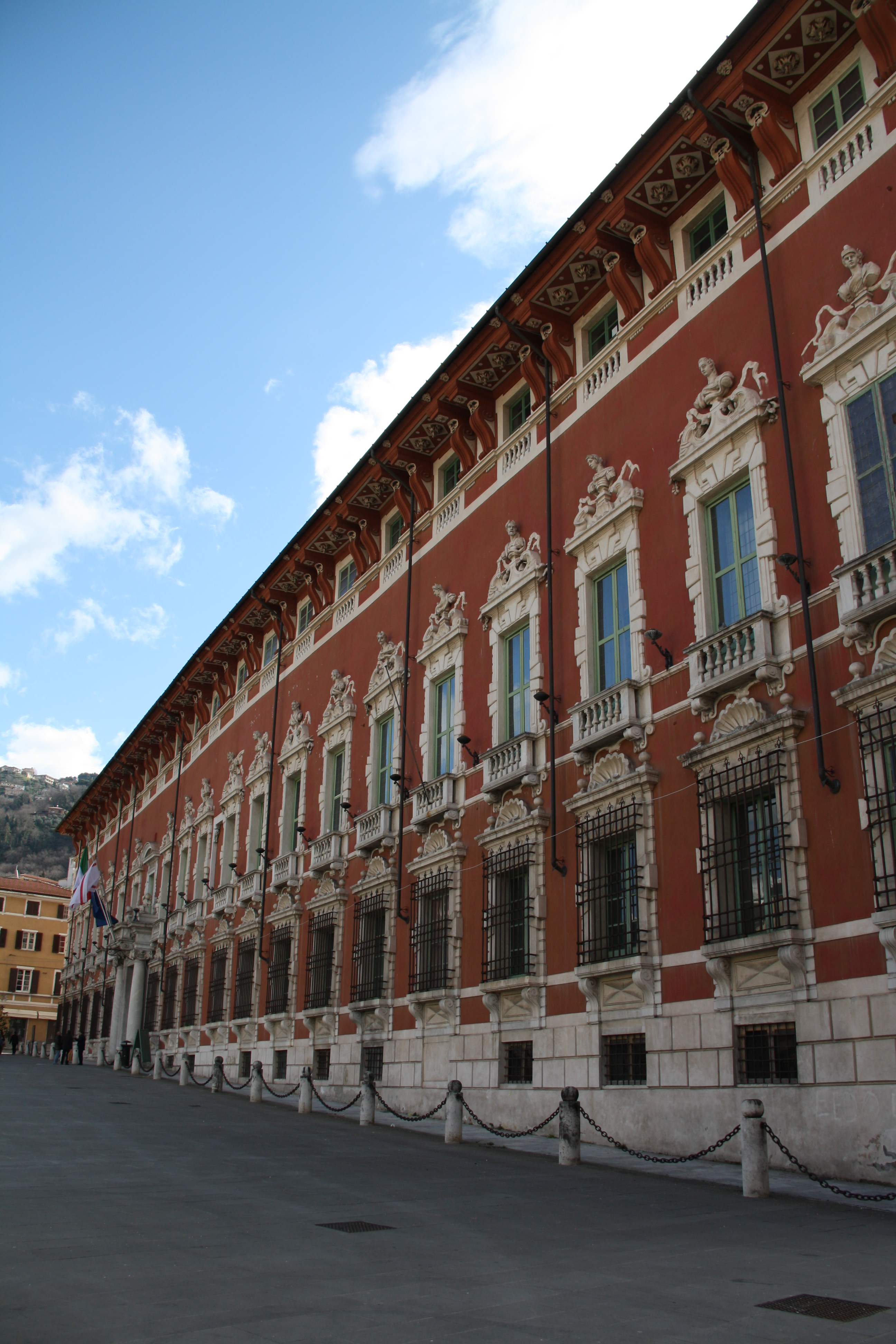 Italy, Tuscany, Massa, Piazza Aranci. The Ducal Palace take place in “Piazza Aranci” wanted by Elisa Baciocchi as a wide space in front of the Palace, breaking down the St. Peter Church in 1808 to make room. The obelisk was placed in the center of the square and later was surrounded by the four white marble lions by Ludovico Isola in 1886. The original part of the Palace was built in the first part of 1500s under Carlo I Cybo-Malaspina as the Hall of the Swiss and the Ducal Chapel. The Palace took the present aspect only at the beginning of 1700s by the will of the Princess Teresa Pamphilj wife of Carlo II Cybo-Malaspina on plans of Alessandro Bergamini in Italian Renaissance style. The Palace is now home of the Prefettura.